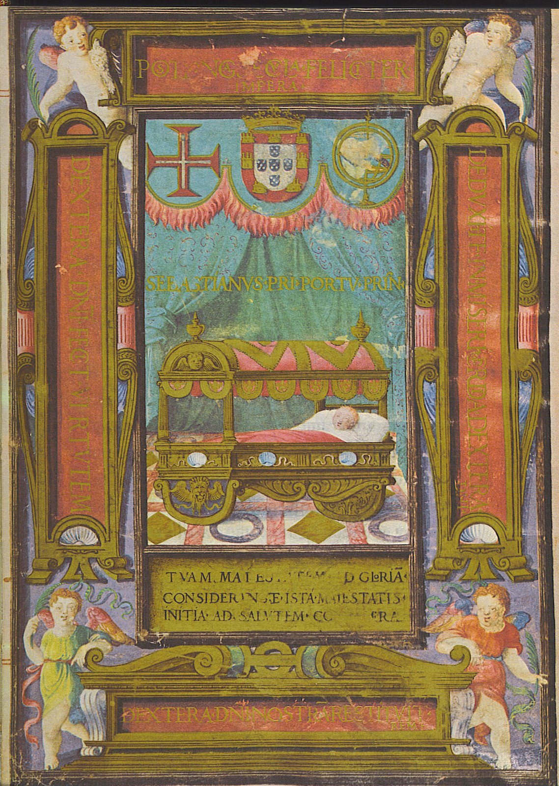 Newborn Hereditary Prince of Portugal, Sebastian of Avis (later King Sebastian I of Portugal), in a 1554 miniature.